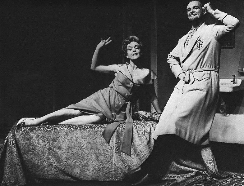 Maj Lindström and Lars Ekman in Kiss Me, Kate. Malmö Stadsteater